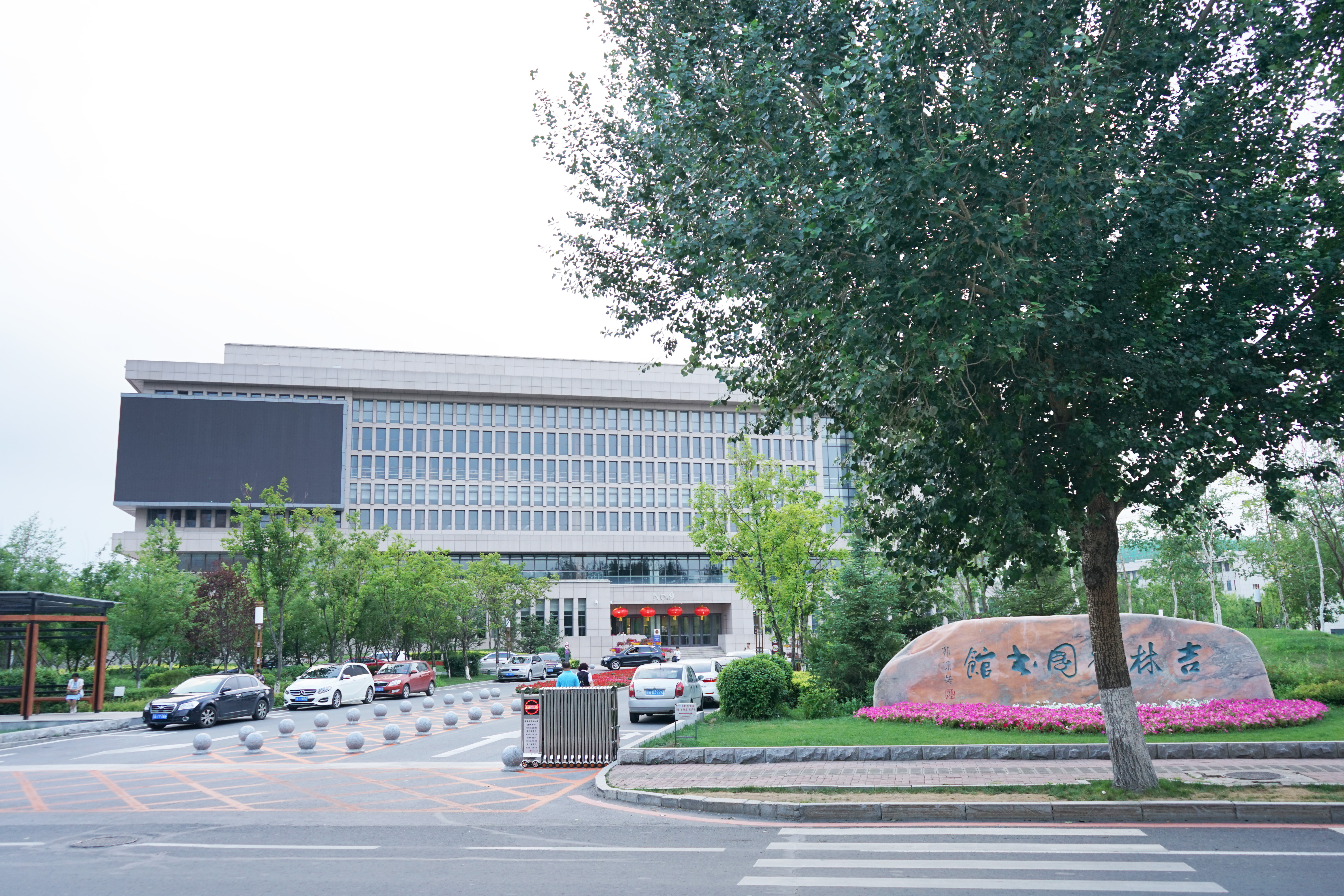 Jilin Provincial Library